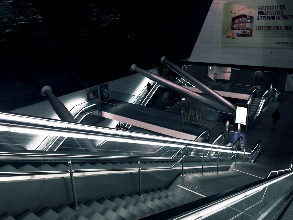 be due foto scura 1